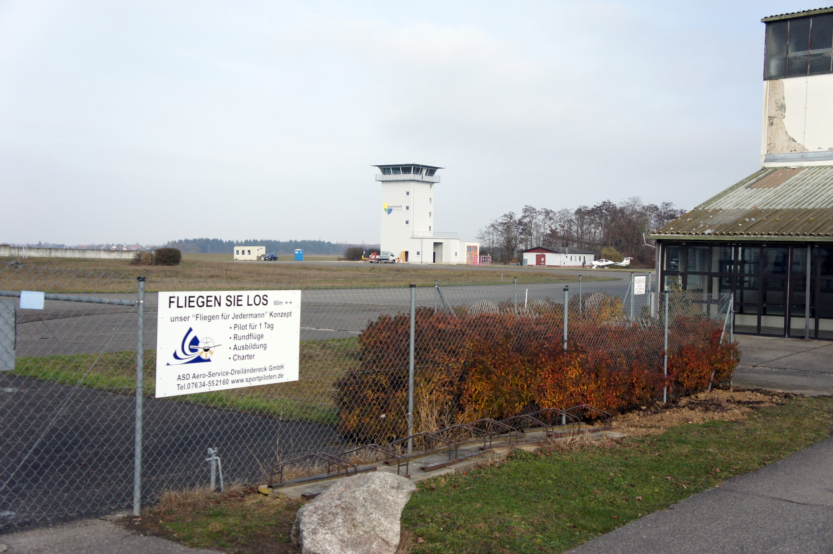 Tower of airfield Bremgarten (Germany)